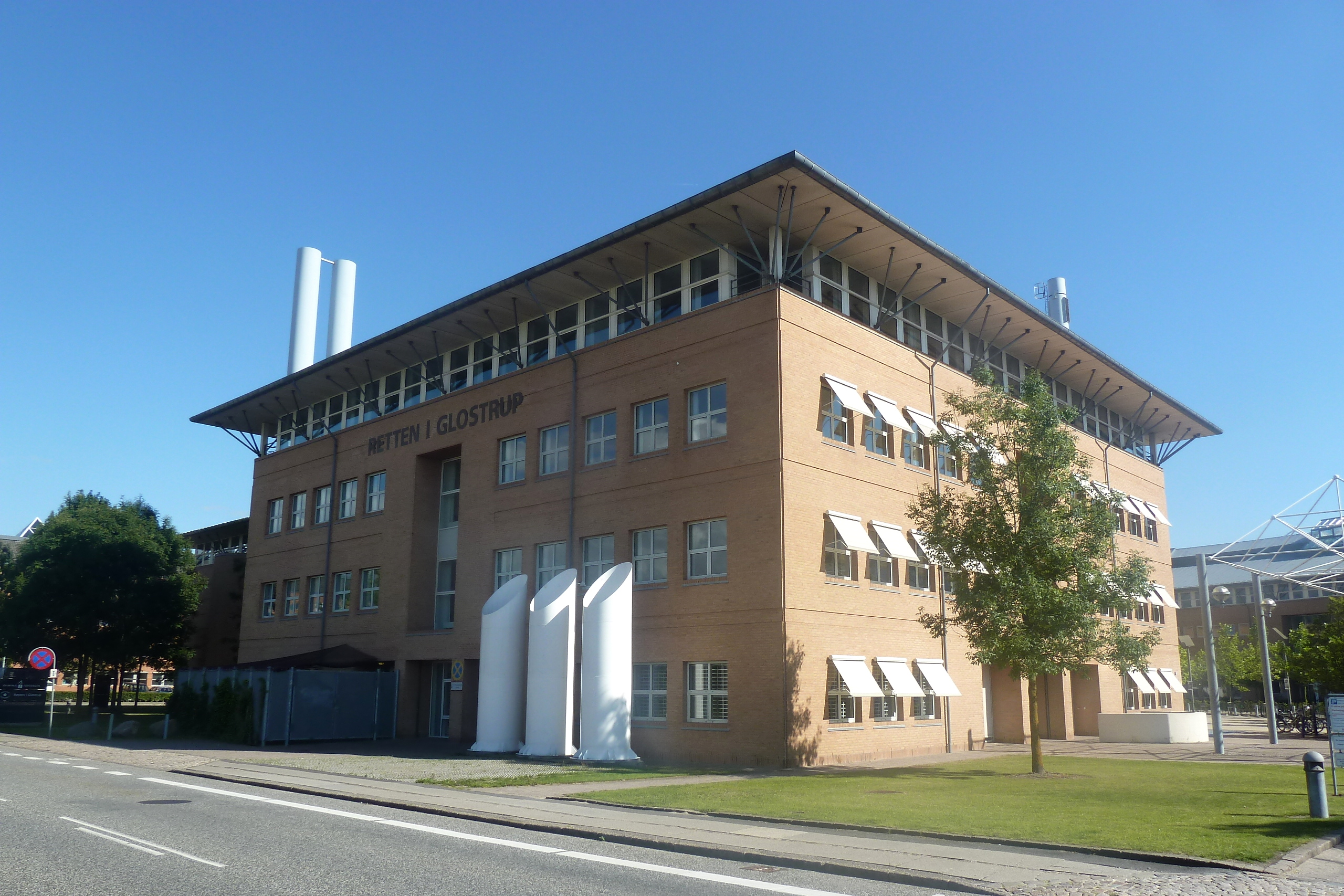 Court house in Glostrup in Copenhagen.